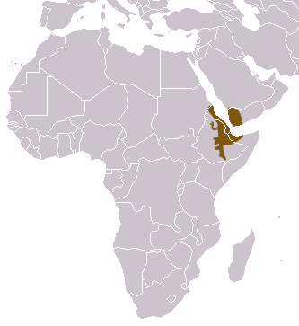 Hamadryas Baboon (Papio hamadryas) range